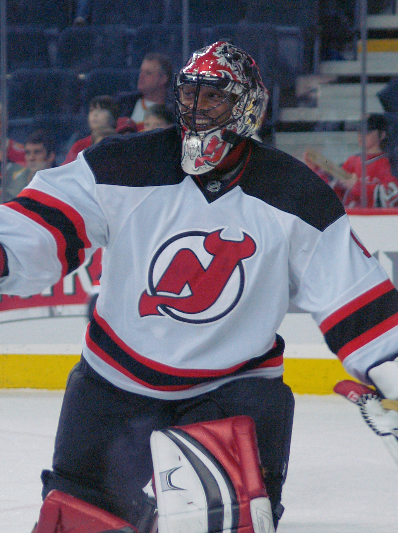 Kevin Weekes of the New Jersey Devils in a pregame skate in Calgary.